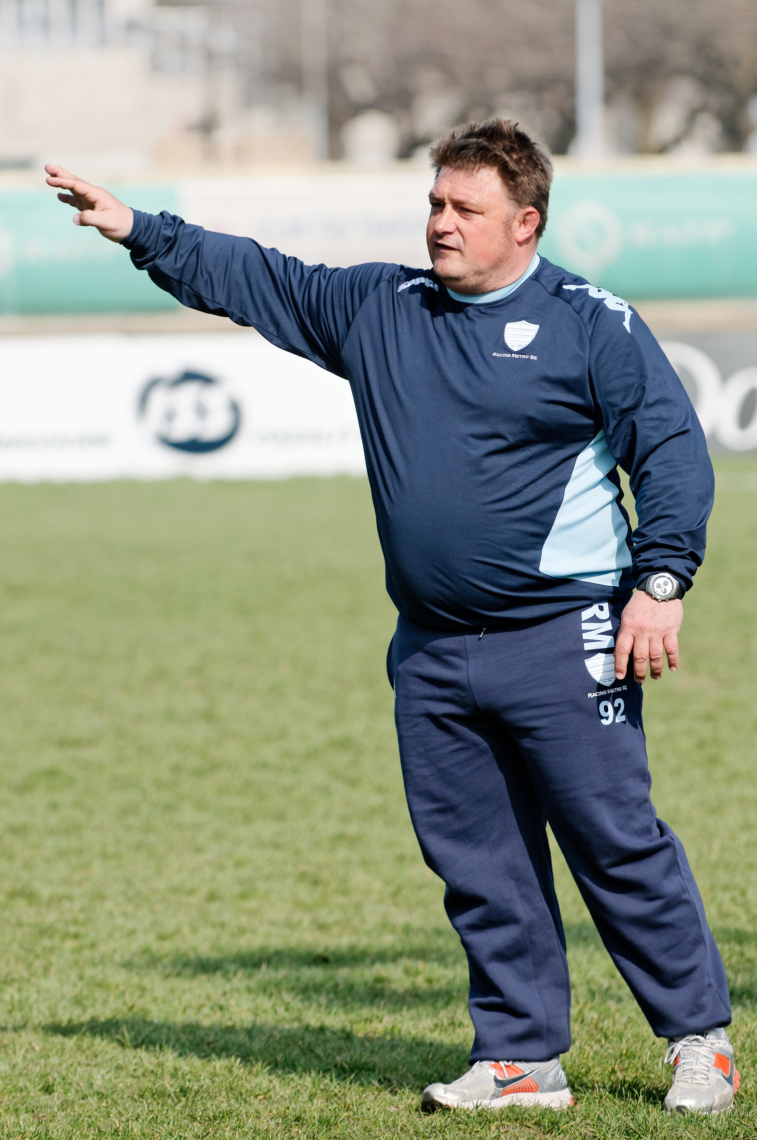 Didier Retière during the Racing Métro training session held at Antony on 13 March 2012.